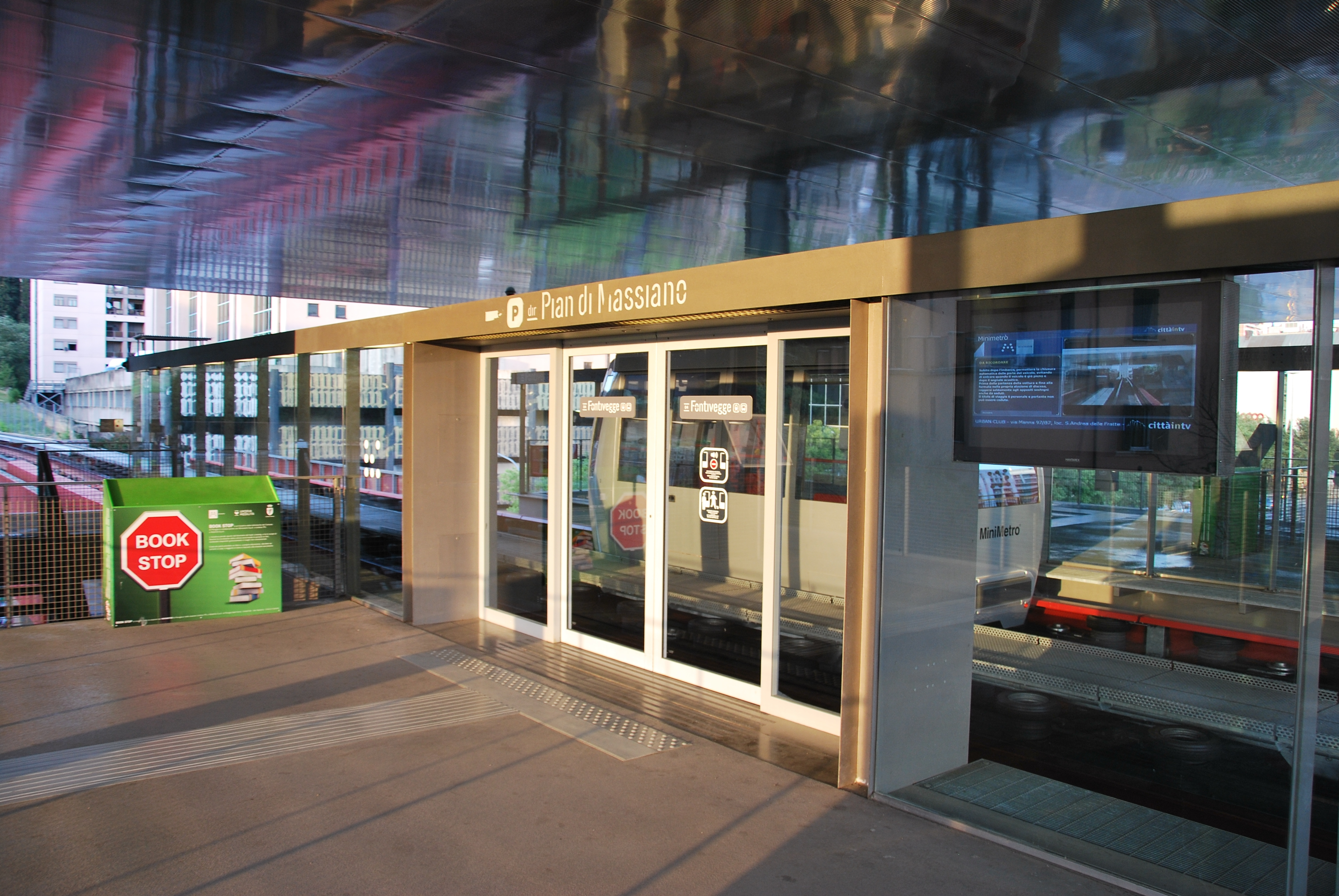 Minimetro in Perugia